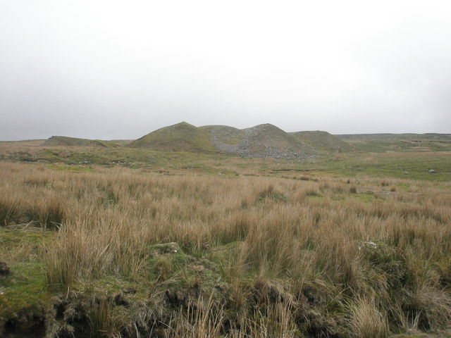 Spoil heaps on Sargill Side These spoil heaps are the remains of the former Sargill Side Lead Mine above Sedbusk.